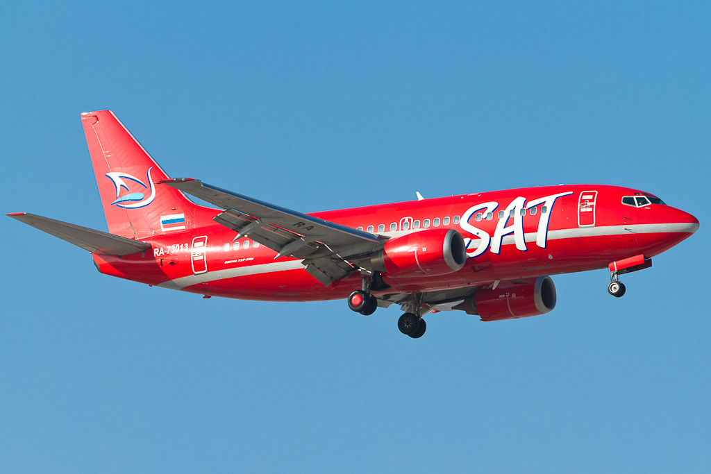 Boeing 737-500 of SAT Airlines at Vladivostok Airport